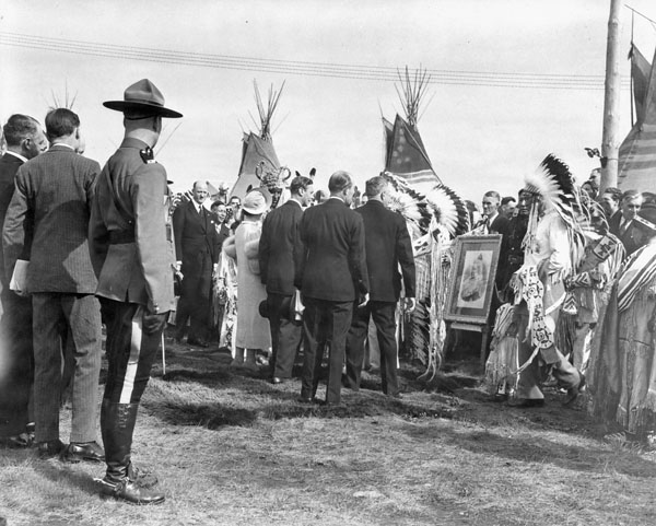 "Their Majesties greet chieftains of the Stoney Indian Tribe, who have brought a photo of Queen Victoria." Calgary, Canada